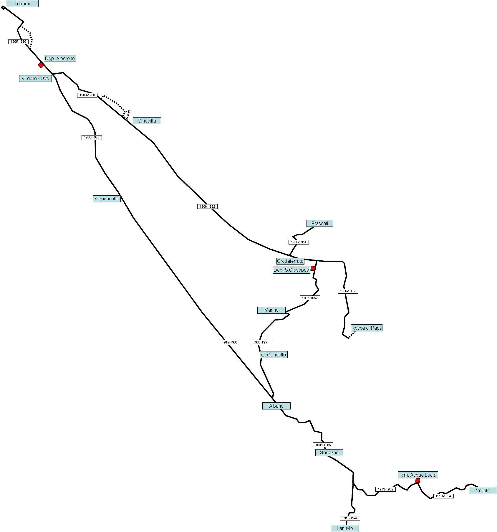 Author Yng. Map of Trams of Castelli Romani